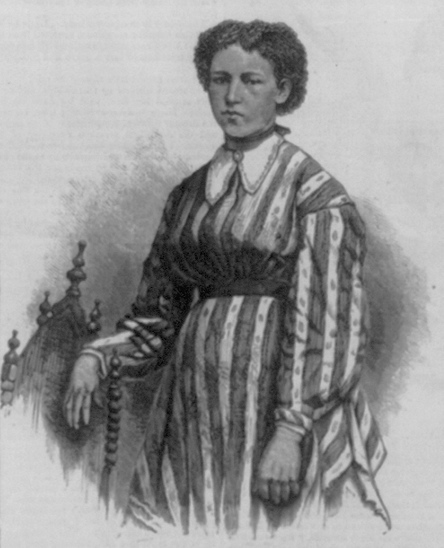 Julia Hayden, "colored school teacher", murdered by reactionary "White League" in Hartsville, Trousdale County, Tennessee in 1874